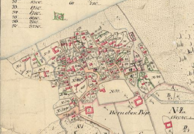 Hornbæk 1860